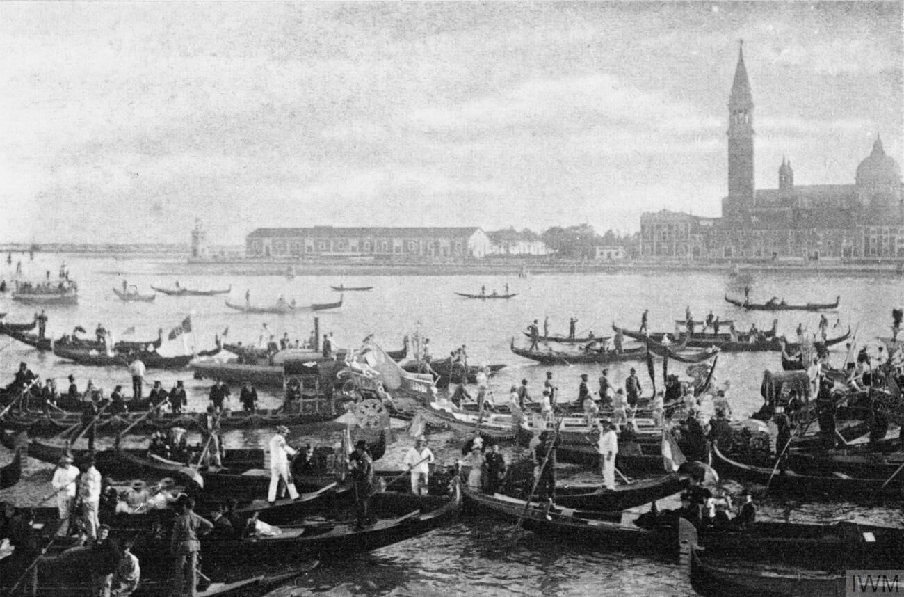 Germany Before the First World War 1890 - 1914 The visit of Kaiser Wilhelm II and Kaiserin Auguste to Palestine in 1898. Snapshot taken by the Kaiserin from the Imperial Royal Yacht HOHENZOLLERN as it sailed from Venice, Italy on 13 October. A flotilla of gondolas bid farewell to the Royal Party. San Giorgio Maggiore is visible in the background. Photograph from a personal collection compiled by the Kaiserin and presented by her to Hugh, 5th Earl of Lonsdale.